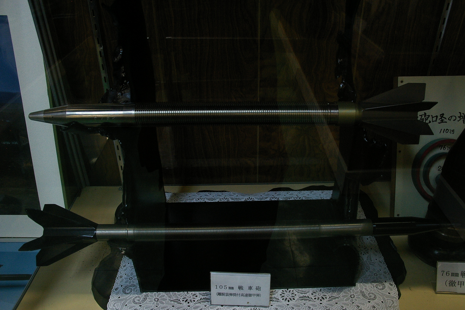 105mm APDSFS for type74 tank.